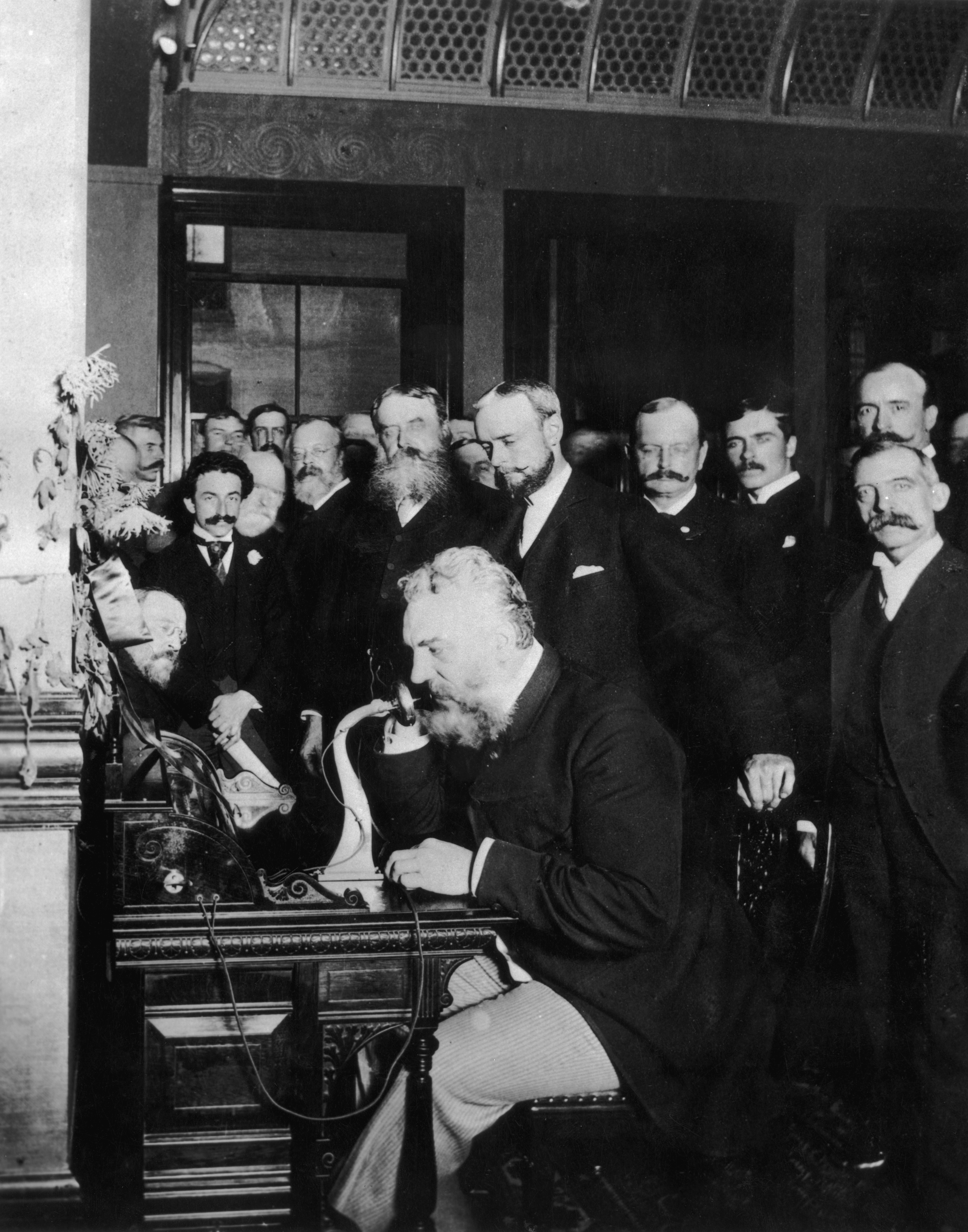 Bell on the telephone in New York (calling Chicago) in 1892